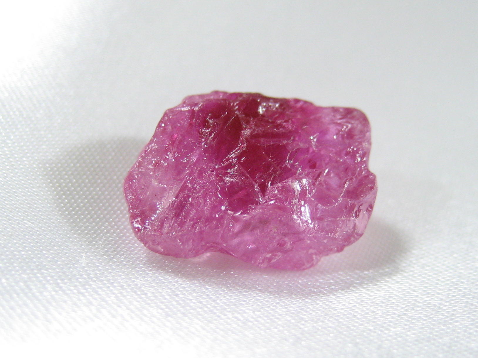 Ruby made in Burma. taken by Azuncha.